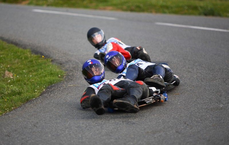 Street luge riders in a curve